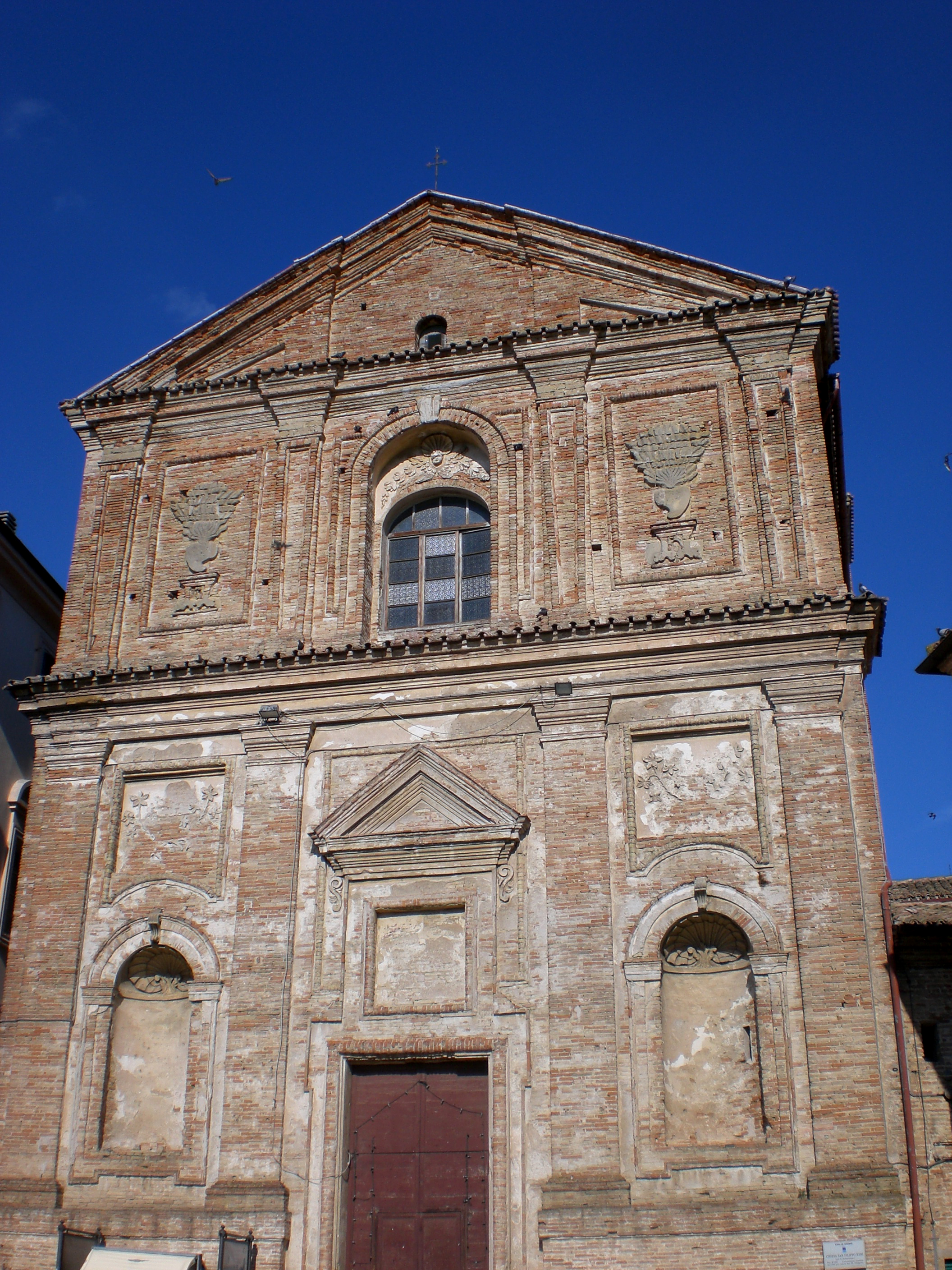 Osimo, St.Philip's Church